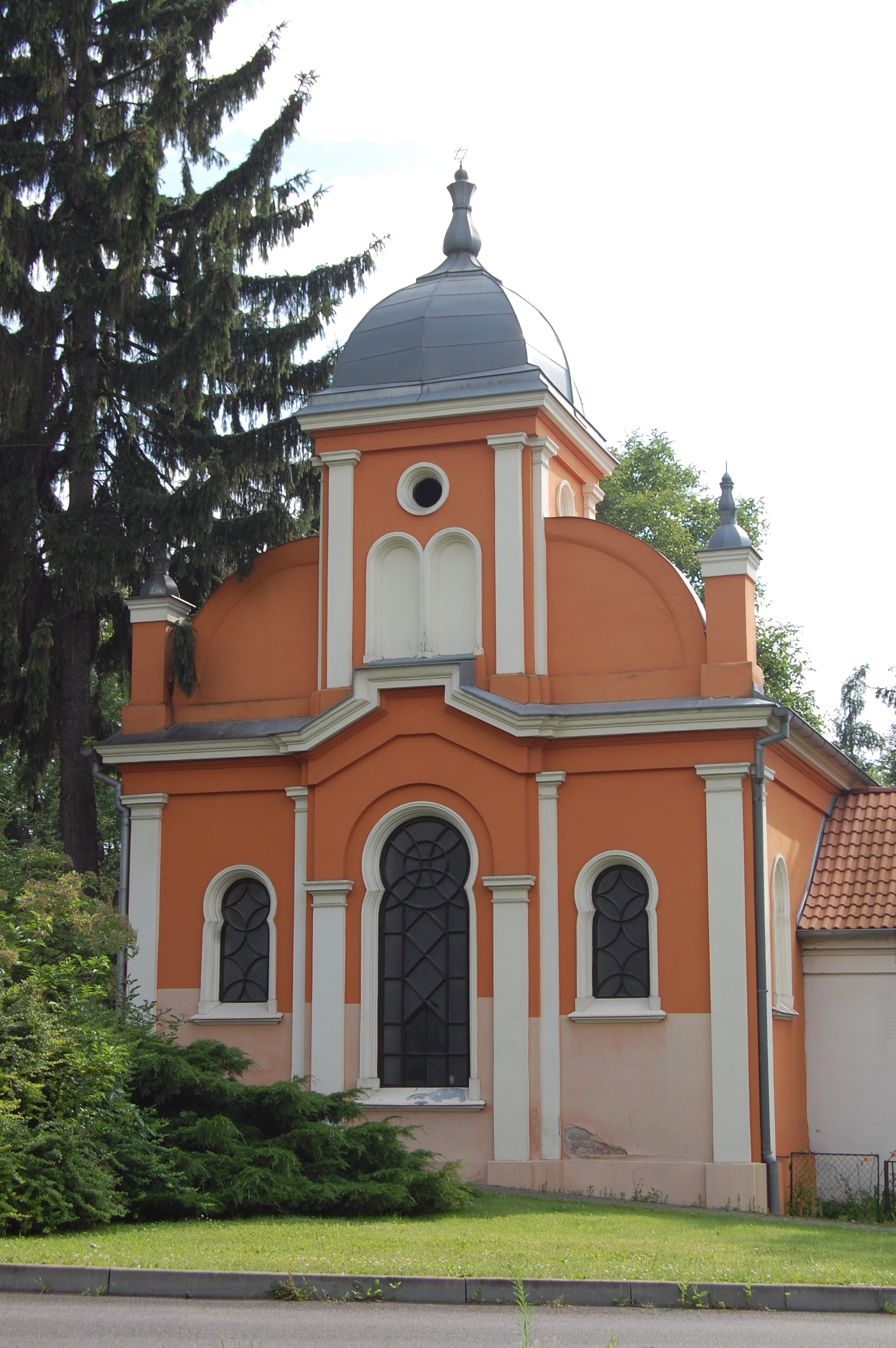 Ceremonial hall at Jewish cemetery in Louny (front view)